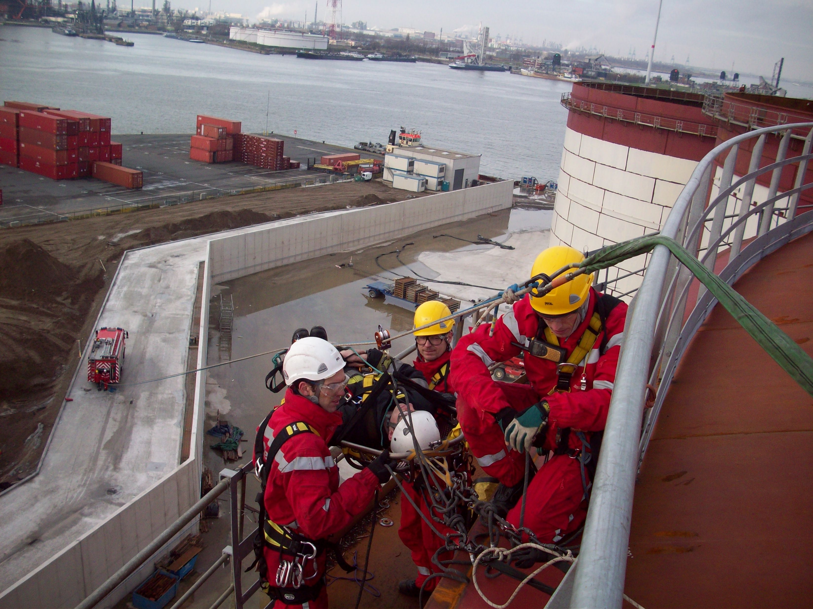 rope rescue techniques in practice